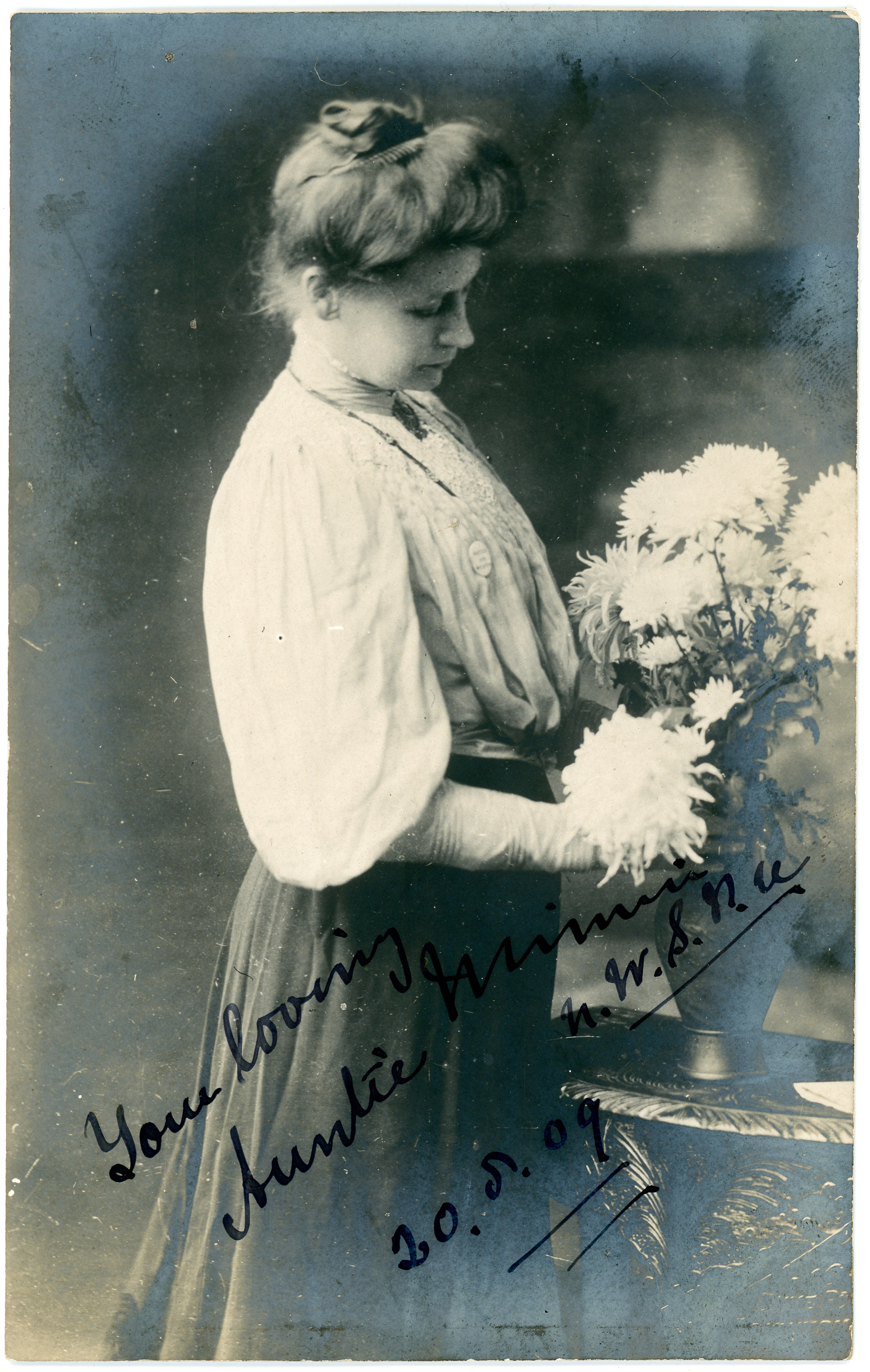 Postcard